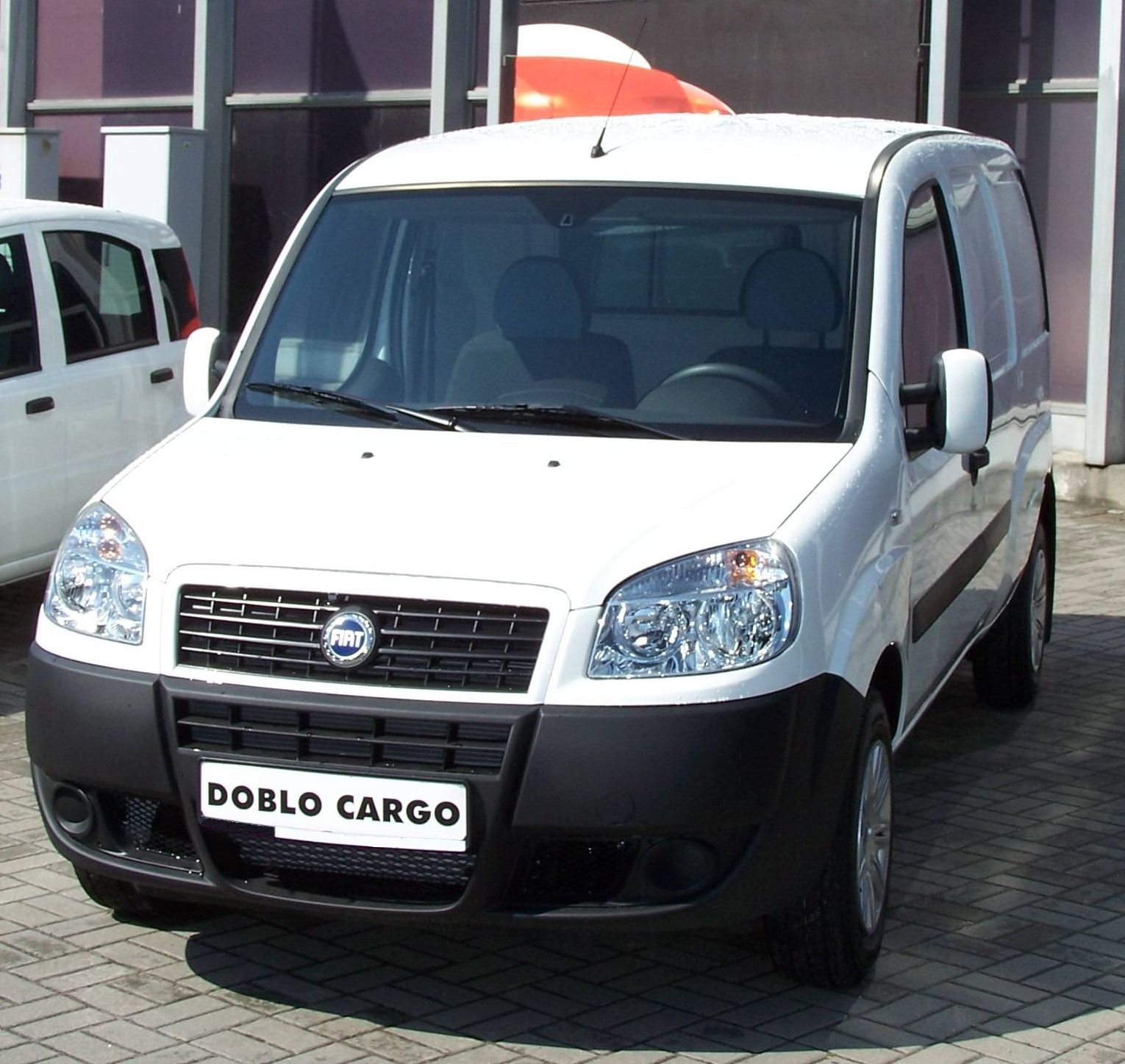 Fiat Doblò Cargo facelift in Poznań, Poland.